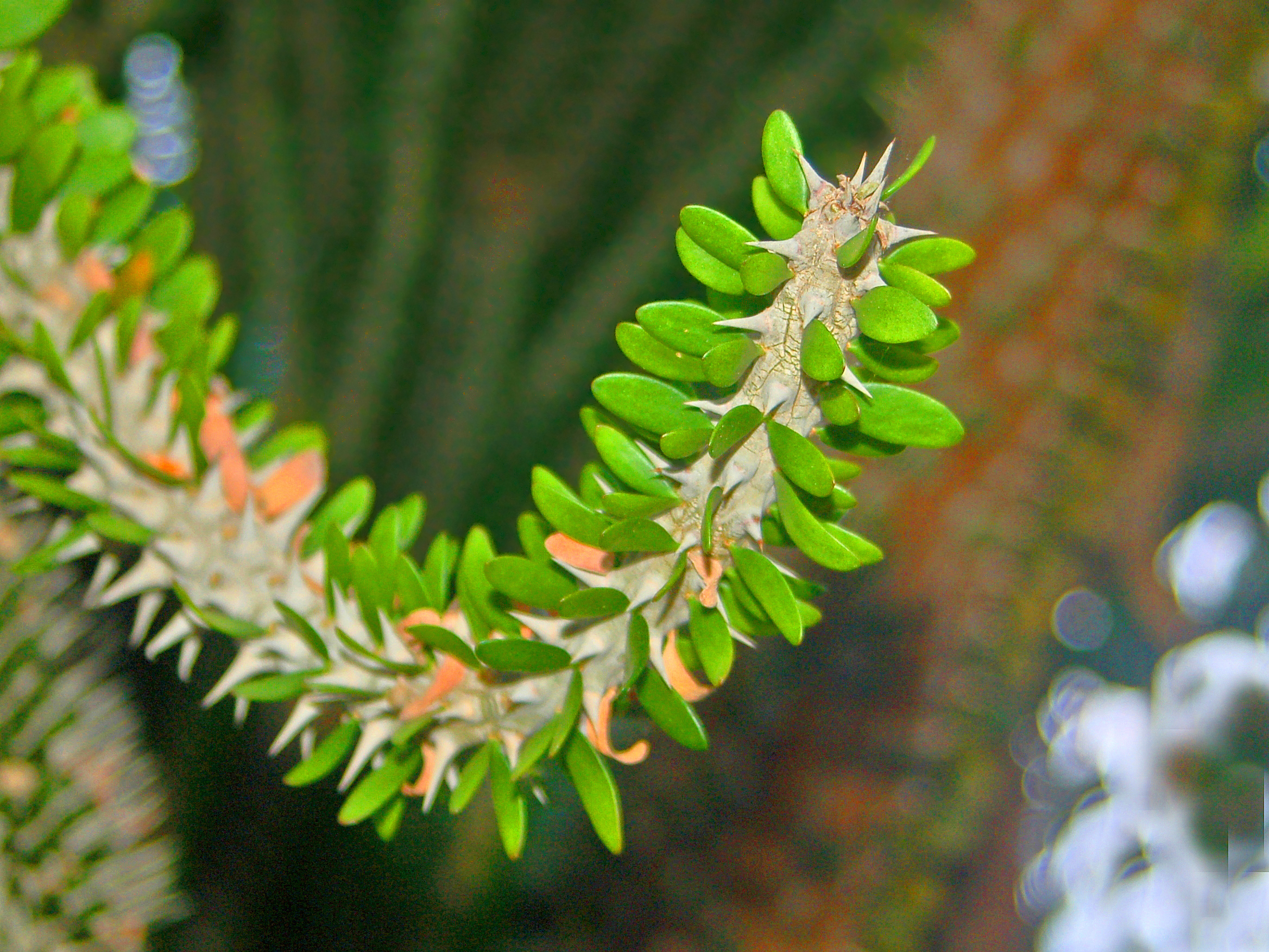 Branch and leaves of Alluaudia montagnacii at the botanical garden of Villa Durazzo-Pallavicini, Genova Pegli